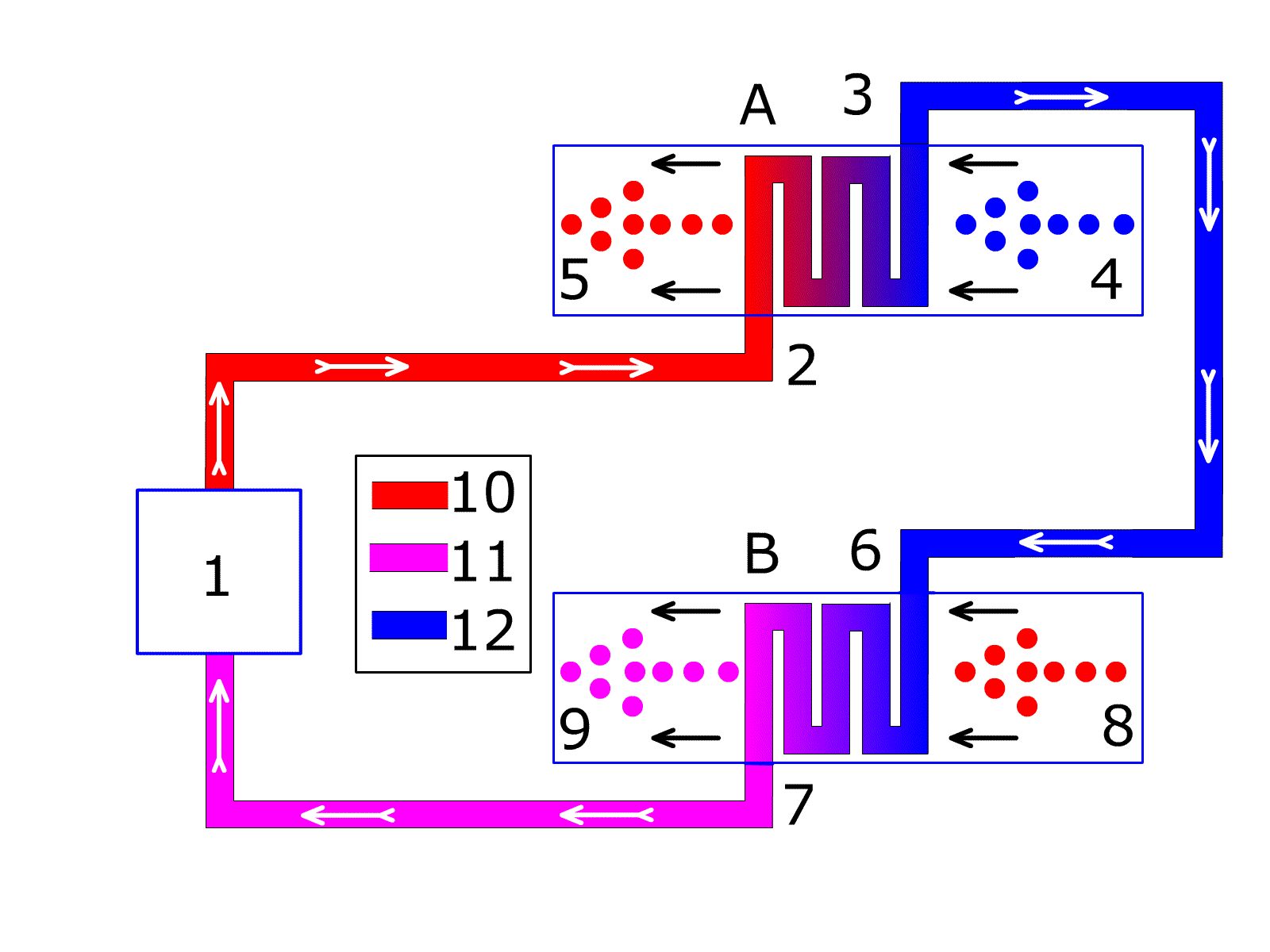 Vapor Cycle Machine in the environmental control system of an aircraft.